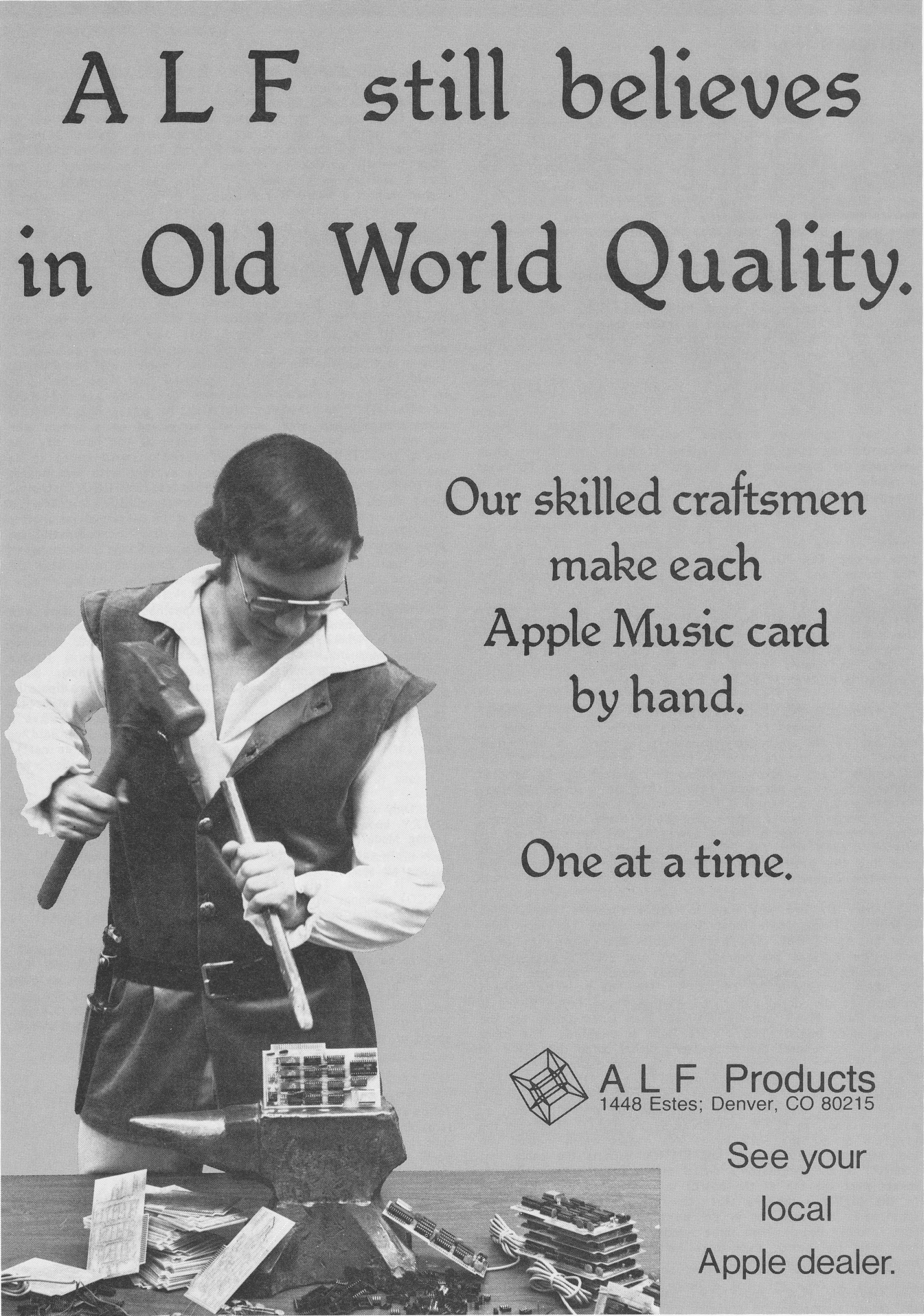 ALF Products' "Craftsman" advertisement